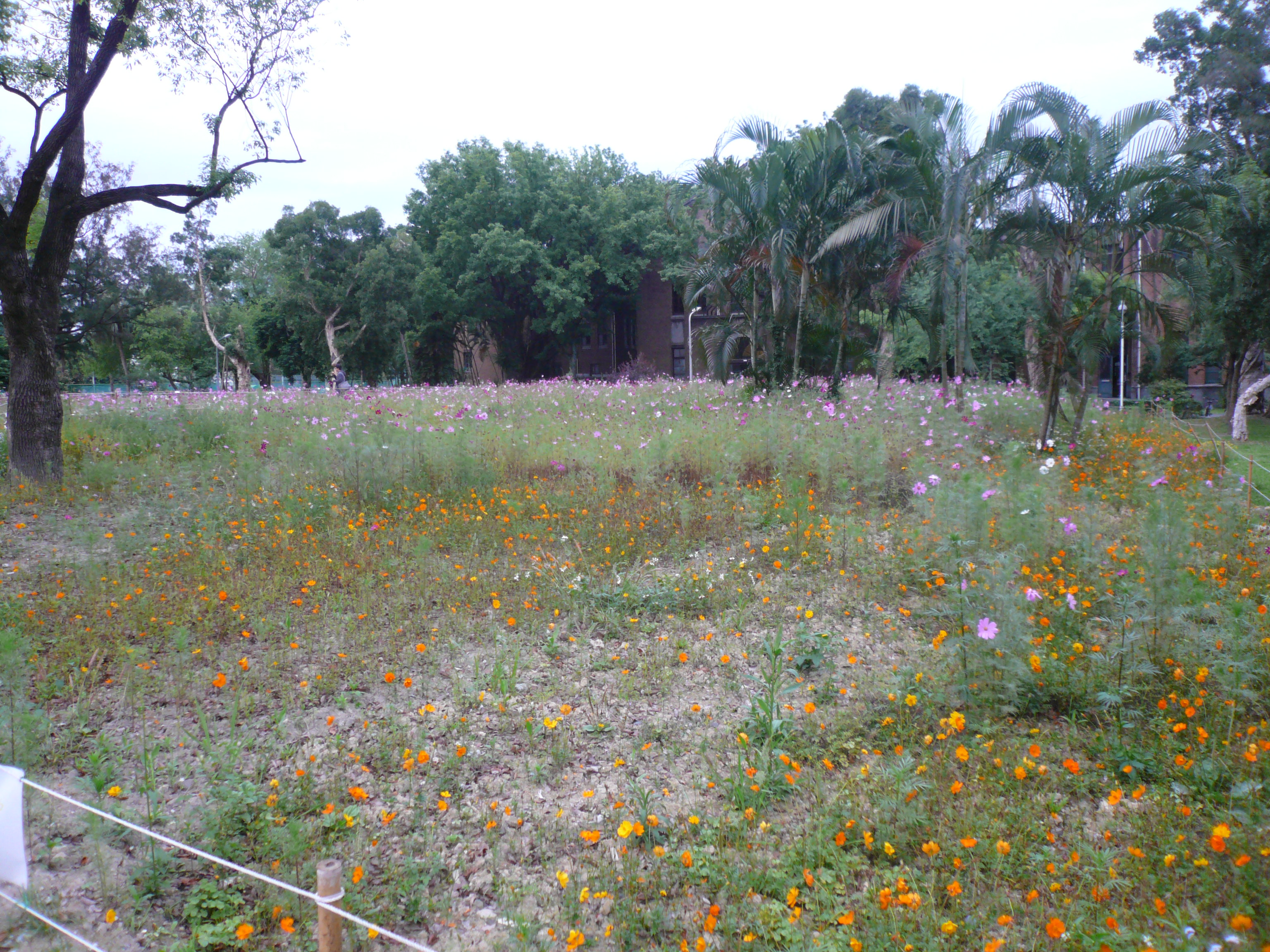 the planed site of humanity building, National Taiwan University, currently is used as a garden.